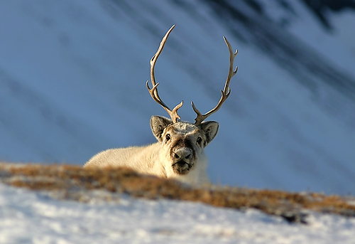 Reindeer in Svalbard